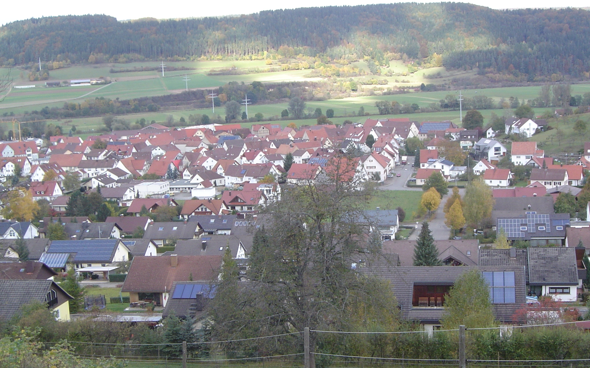 Nendingen, seen from the Häldele.